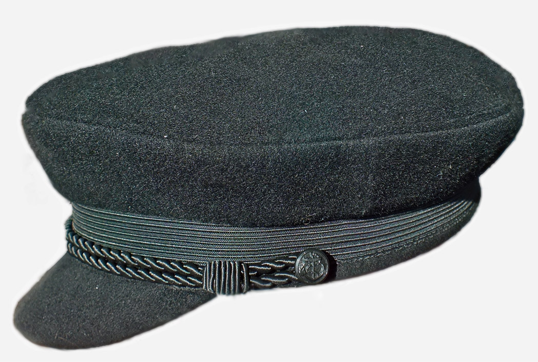 river elbe sailors cap